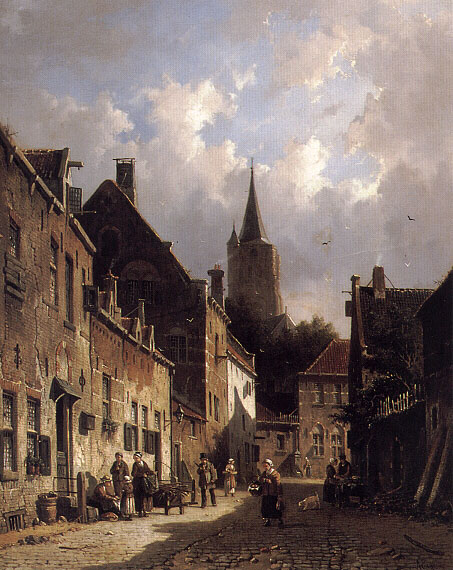 A Dutch Street Scene